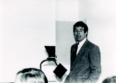 Walter Philipp, 1987 in Vienna